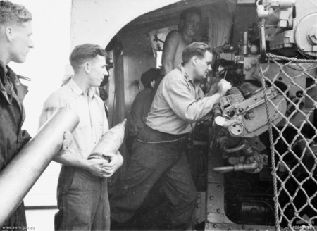 Korea. Photograph showing gunnners loading a QF 4.7 inch Mk XII gun on Australian destroyer HMAS Bataan. The seamen are, left to right: 40819 Able Seaman A P 'Jock' Harley of Patonga, NSW; 29792 Leading Seaman R J 'Bob' McArthur of North Adelaide, SA; 38335 Able Seaman N B Cregan of Carlingford or Carringbah, NSW; and 41061 Leading Seaman Hugh M Currie (right, rear) of Ormond, Vic.